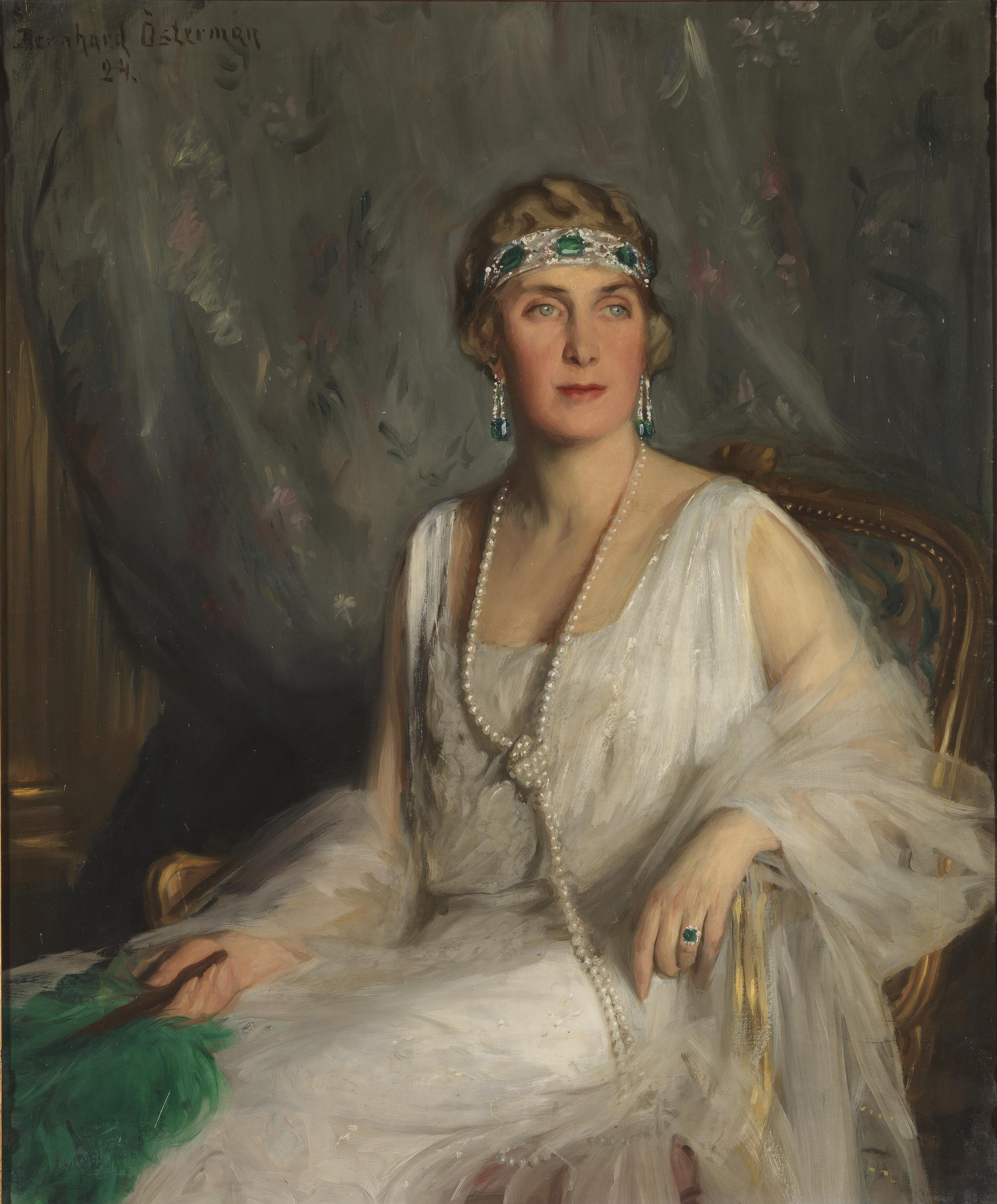 Portrait of Victoria Eugenie of Battenberg